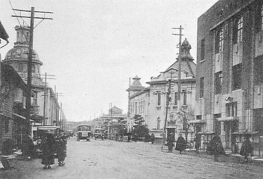 Masaya-Koji circa 1929